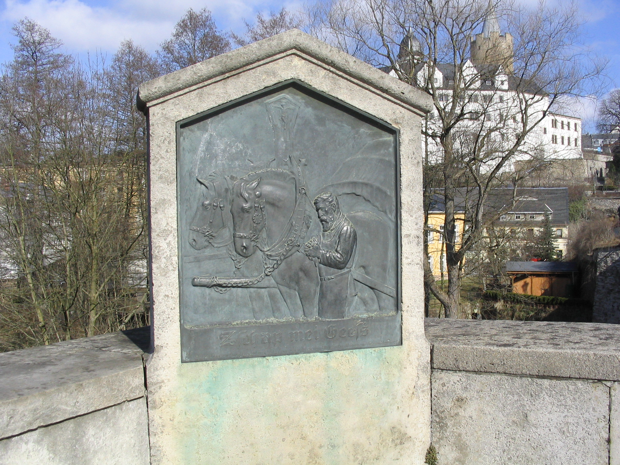 Memorial on the bridge over Zschopau River. The inscription reads: Zschap mei Geeß (Erzgebirgisch dialect for: “Zschopau, my Jesus”).